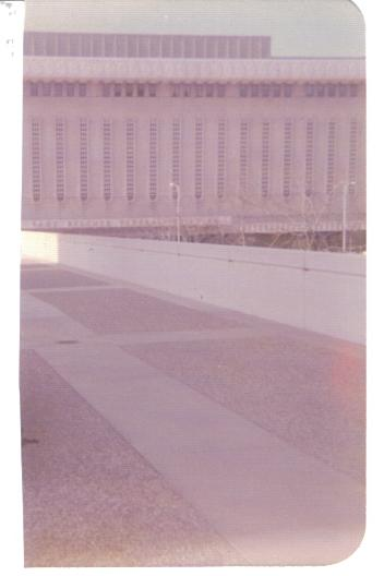 I took photo with Kodak camera in Tulsa, OK.